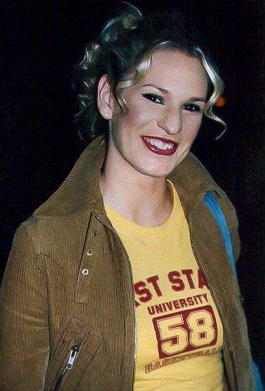 Bernadette Flynn-O'Kane